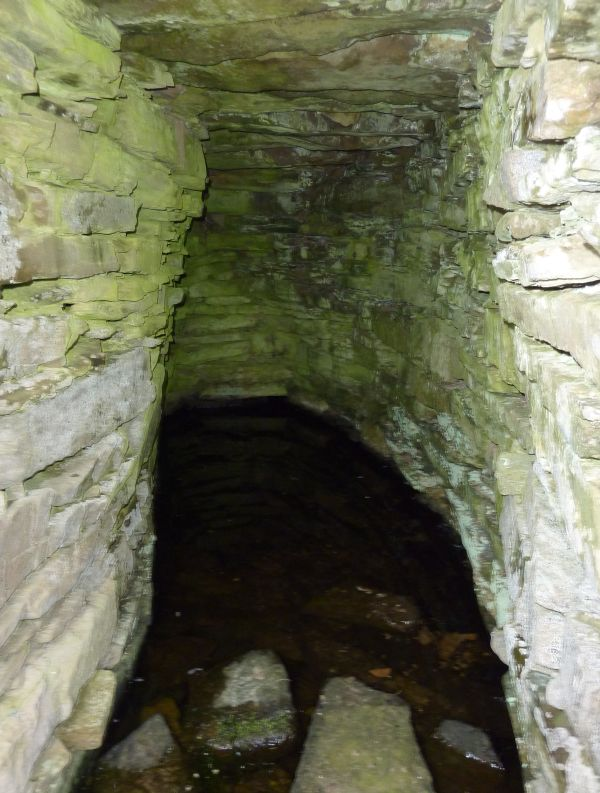 The Broch of Yarrows, near Wick, Caithness, Scotland.